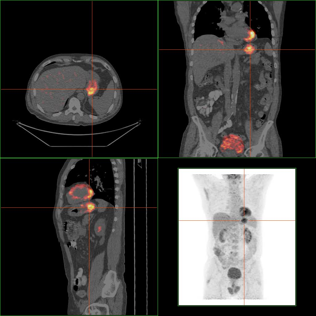 Gastritis; FDG PET/CT exams can display inflammatory diseases and malignant cancer. The gastritis shown here has a high FGD-Uptake